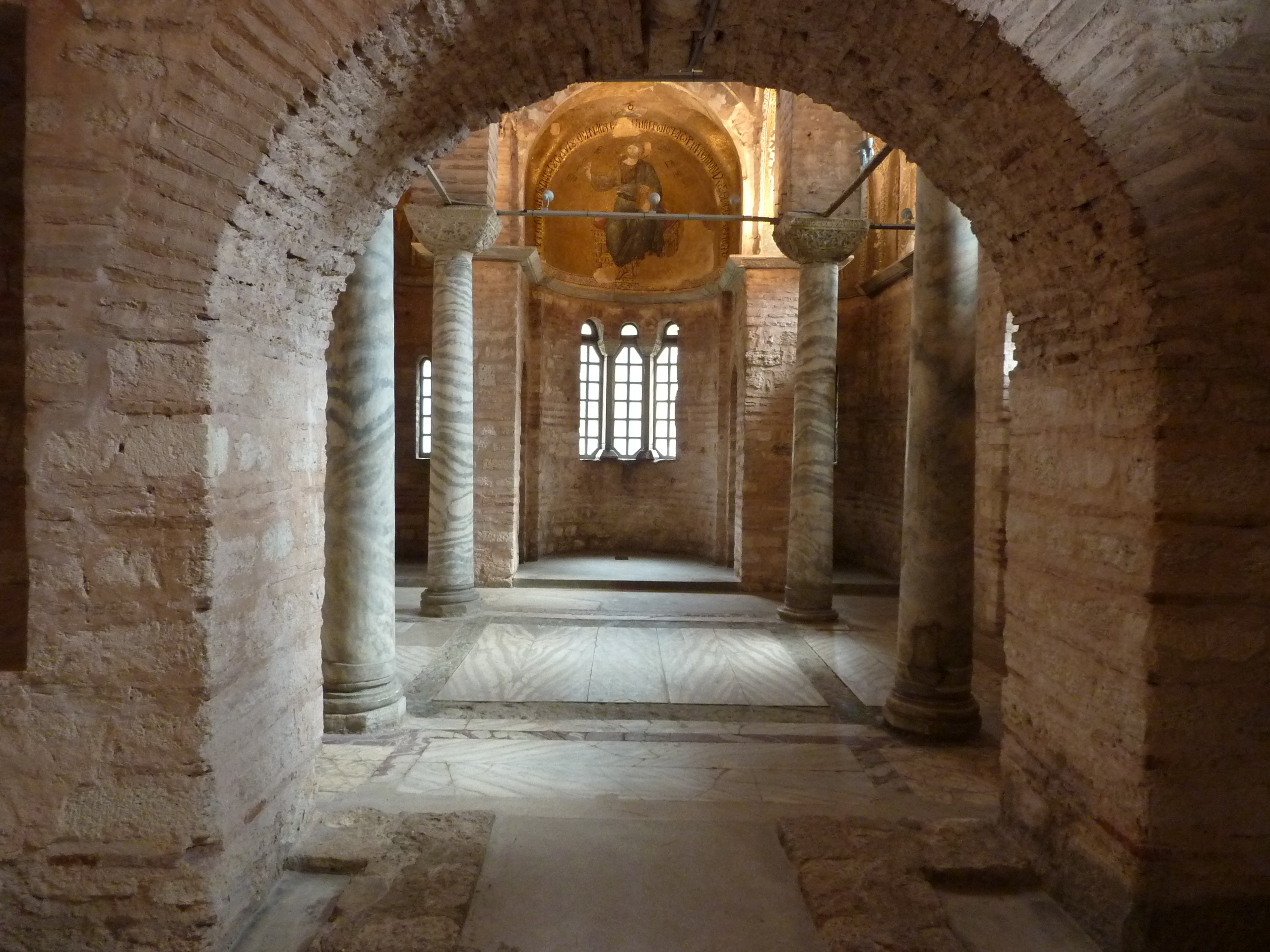 Pammakaristos Church (Fethiye Museum).